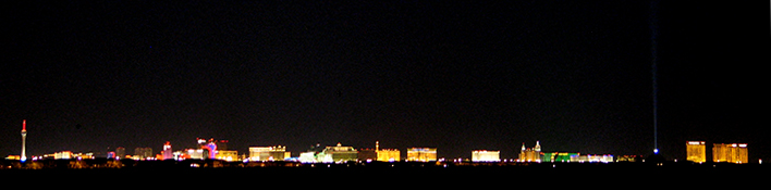 Las Vegas at night. (Taken using a Canon PowerShot G6.)